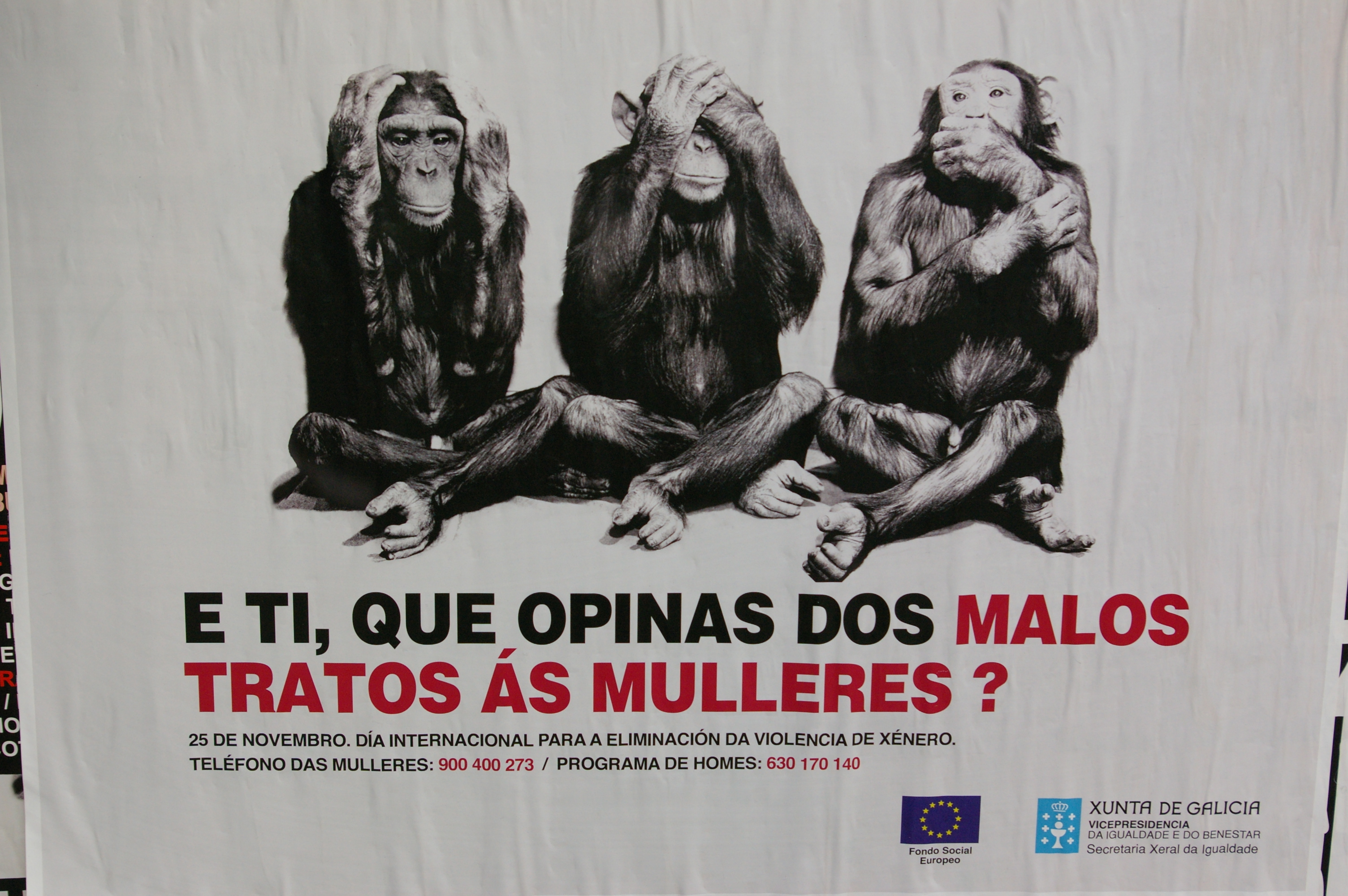 And what do you think of the abuse women? Campaign of the Galician regional government on November 25, International Day for the elimination of gender violence.